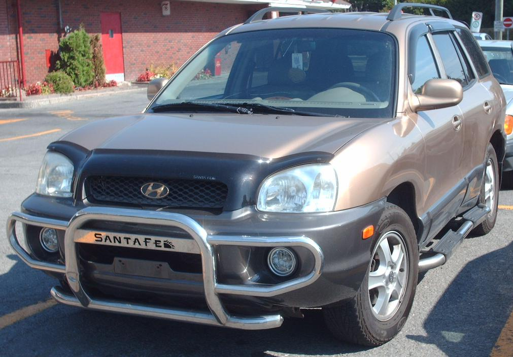 2001-2004 Hyundai Santa Fe photographed in Montreal, Quebec, Canada.